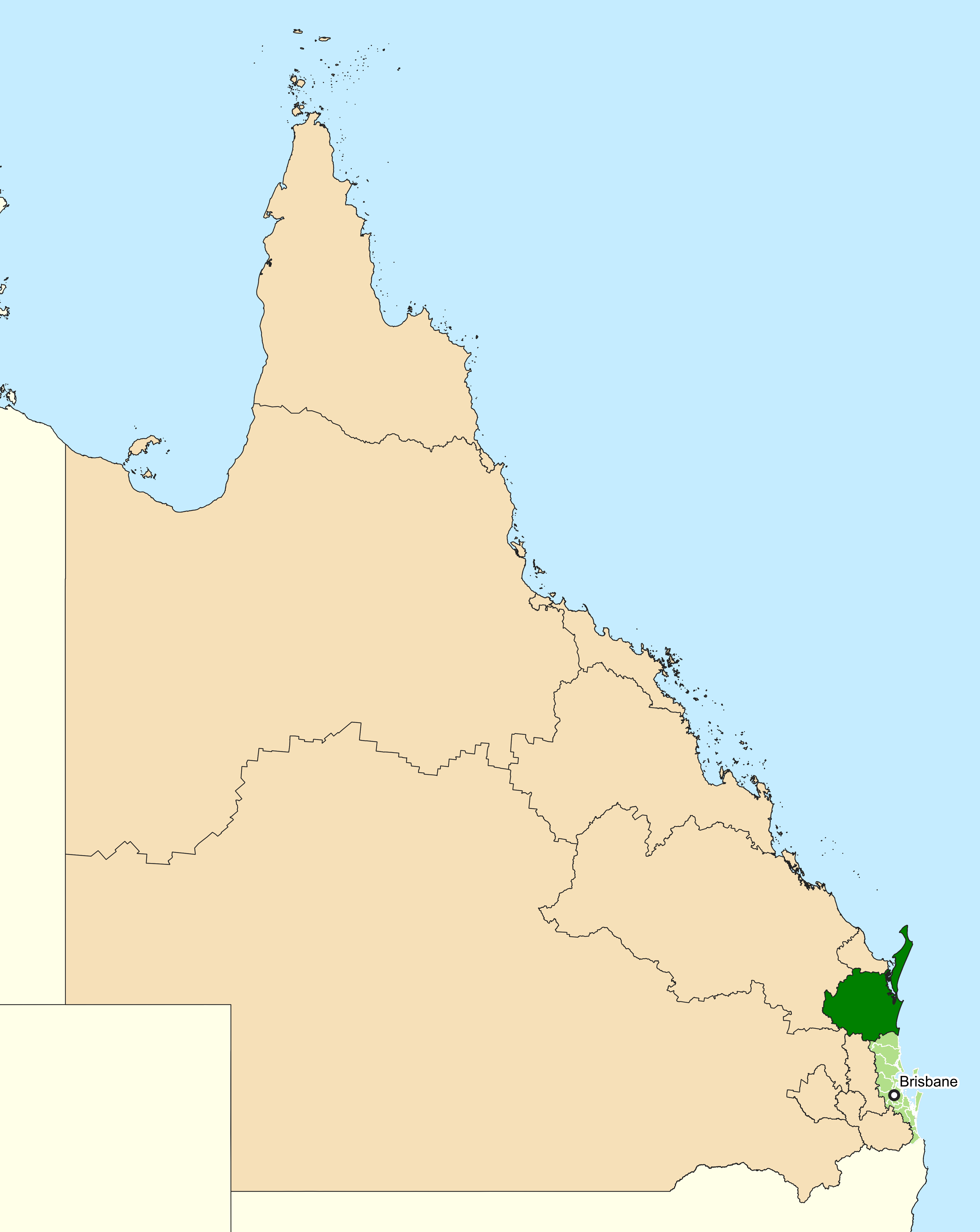 Location of the Australian federal electoral division of Wide Bay (dark green) in Queensland as of the 2019 Australian federal election. Incorporates or developed using Administrative Boundaries ©PSMA Australia Limited licensed by the Commonwealth of Australia under Creative Commons Attribution 4.0 International licence (CC BY 4.0).